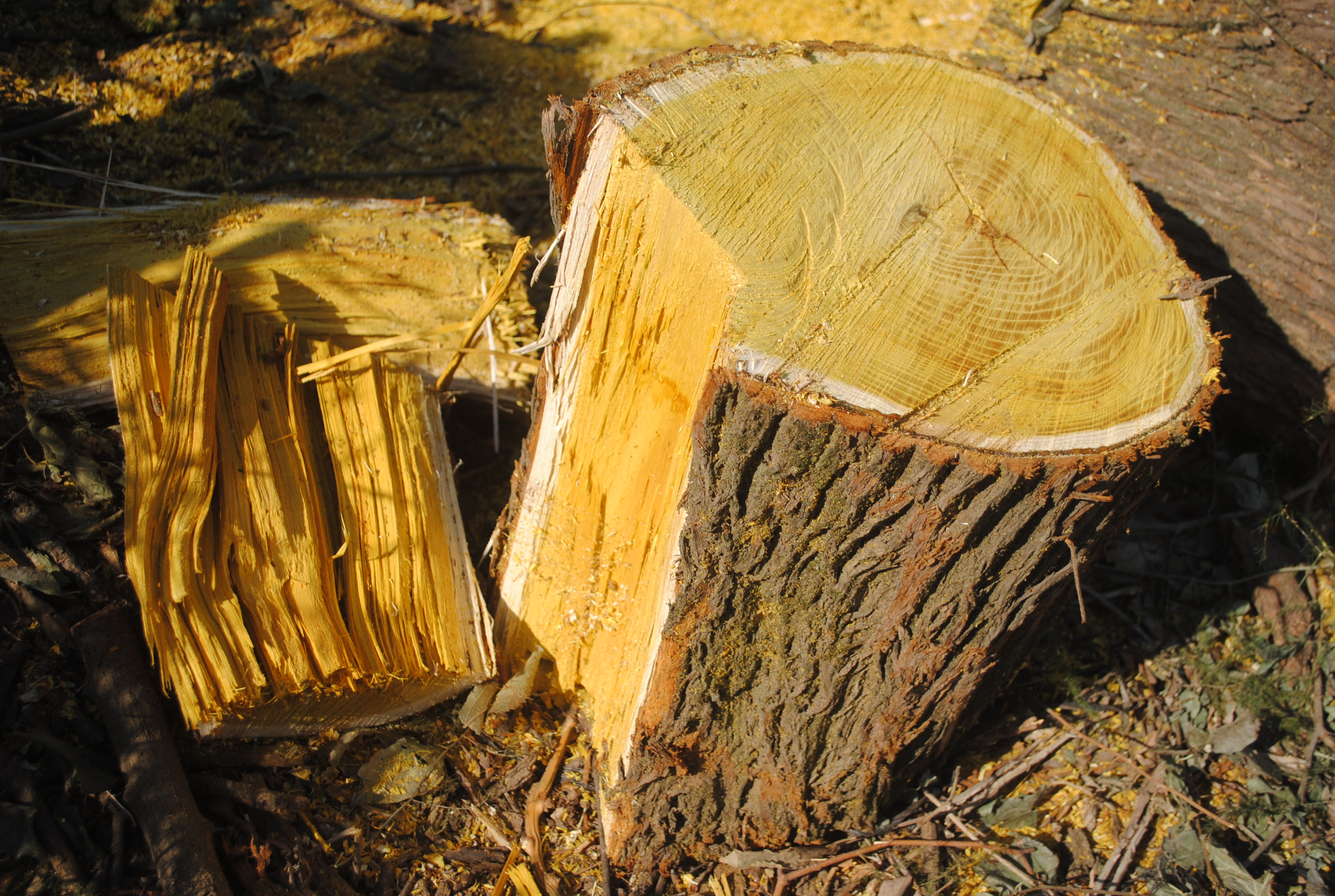 Sawn Maclura pomifera trunk, showing the typical yellowish-orange wood